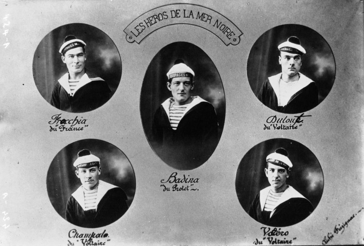 The hero of the Black Sea. Photographic montage of deckhands sentenced after the mutinies in the French squadron sent to Black Sea in 1919. Origin: Communist French party ?